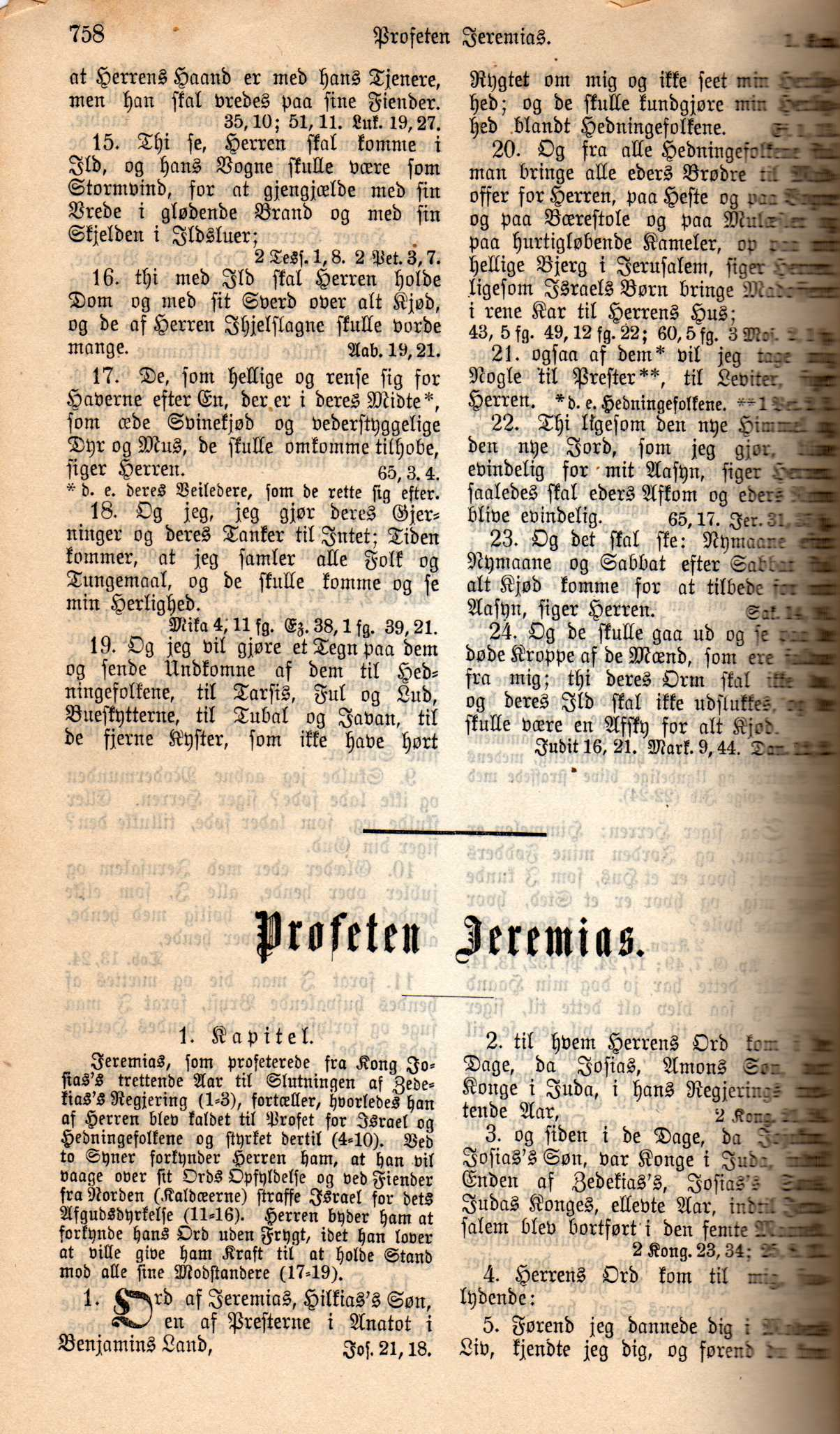 Page from the Norwegian Bible translation of 1891. Jeremias